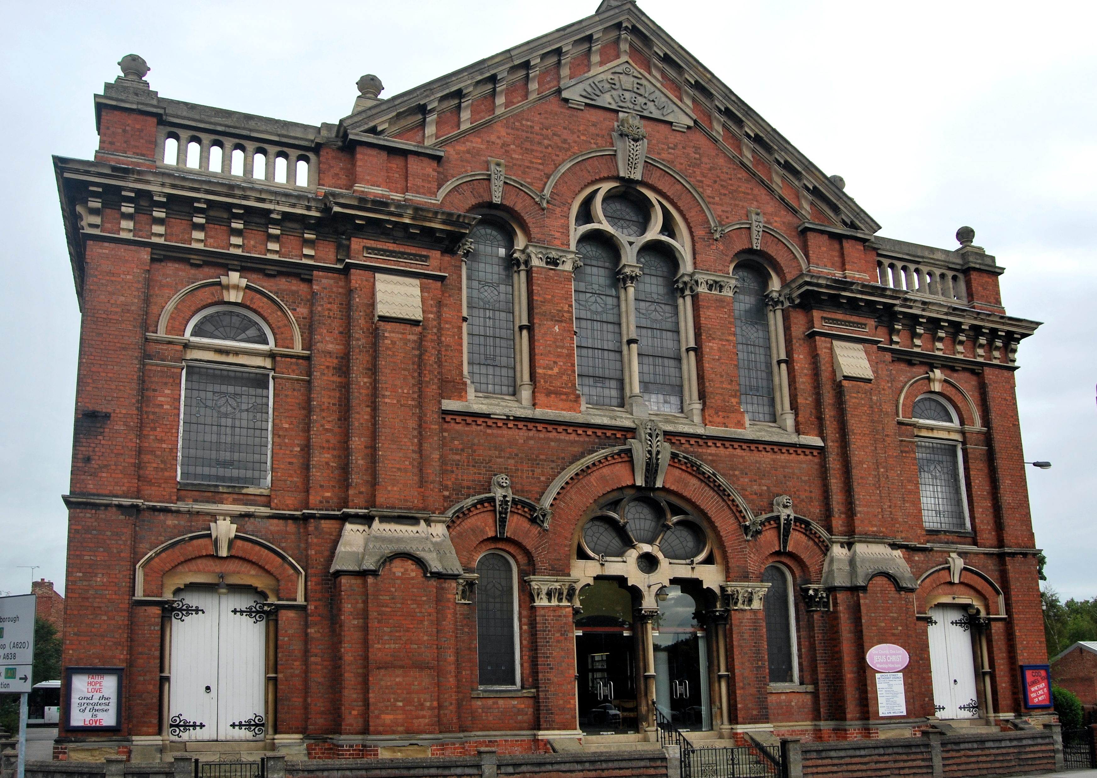 Is this the biggest Methodist in..?